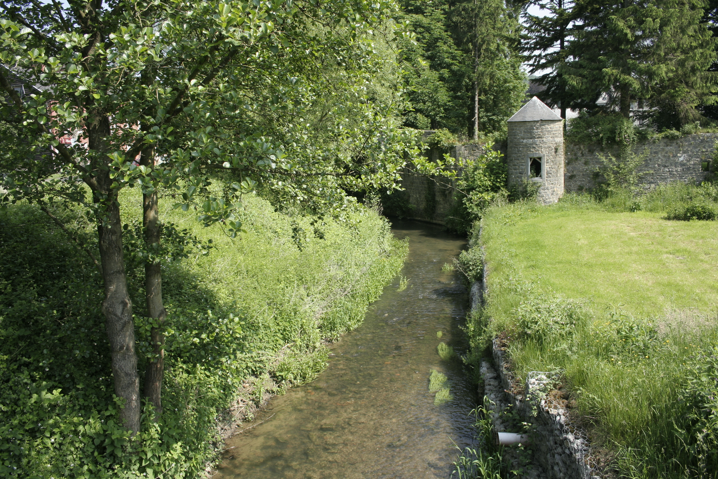 Acoz (Belgium) : the Hanzinne stream along the castle wall and the rue Moncheret.